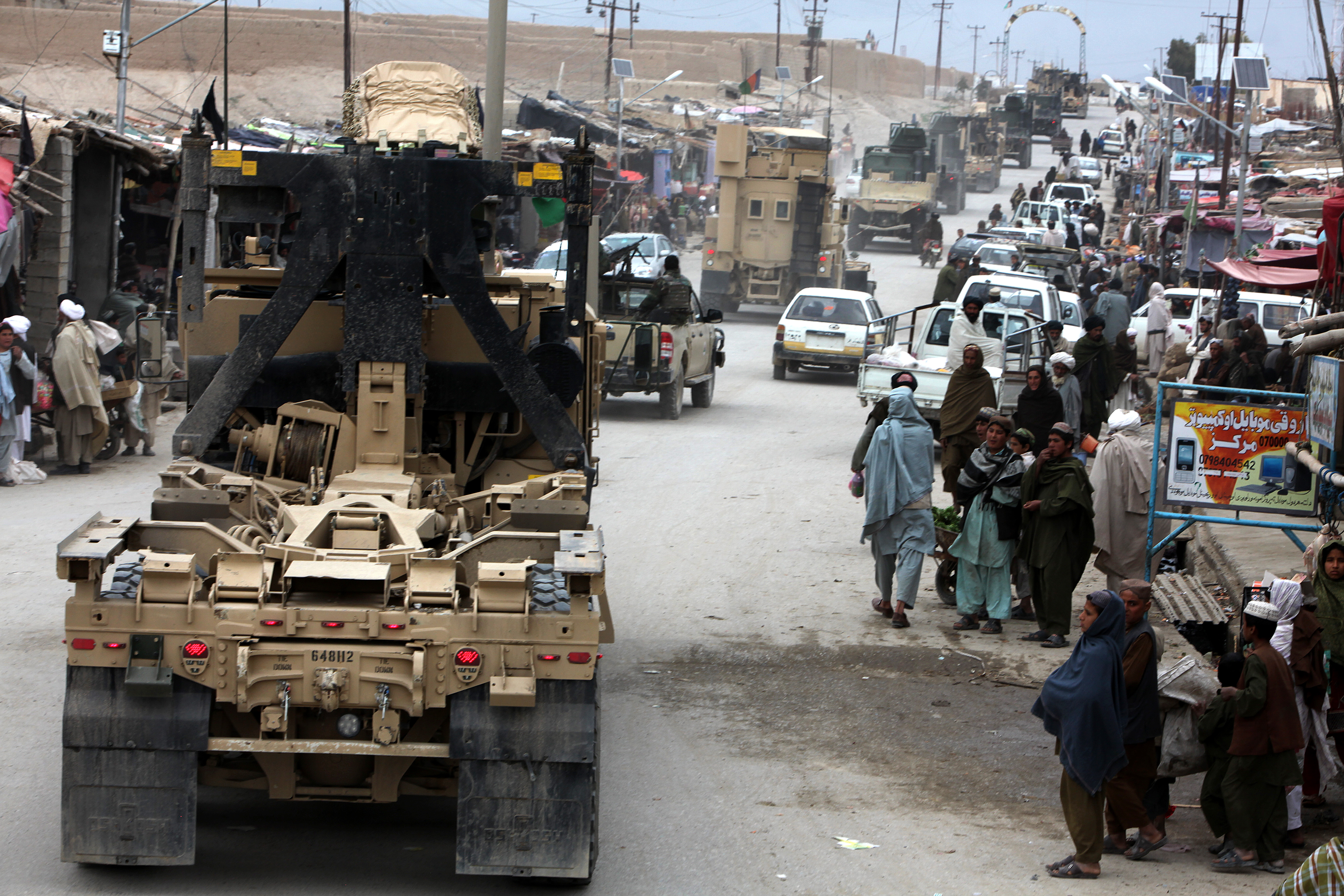 U.S. Marines with Transportation Support Company, Combat Logistics Regiment 2 and British soldiers with Combat Support Logistics Regiment 12 conduct a combat logistics patrol (CLP) in Helmand province, Afghanistan, Feb. 25, 2013. The CLP was conducted in support of the 2nd Battalion, 7th Marine Regiment and coalition forces.